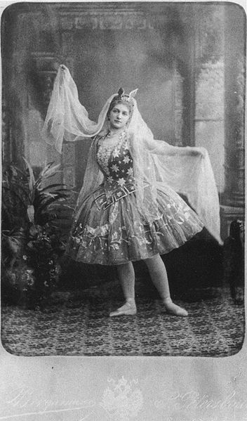 Photographic postcard of the ballerina Anna Johannsen as the Fairy Godmother is the Petipa/Cecchetti/Ivanov ballet "Cinderella", 1893.